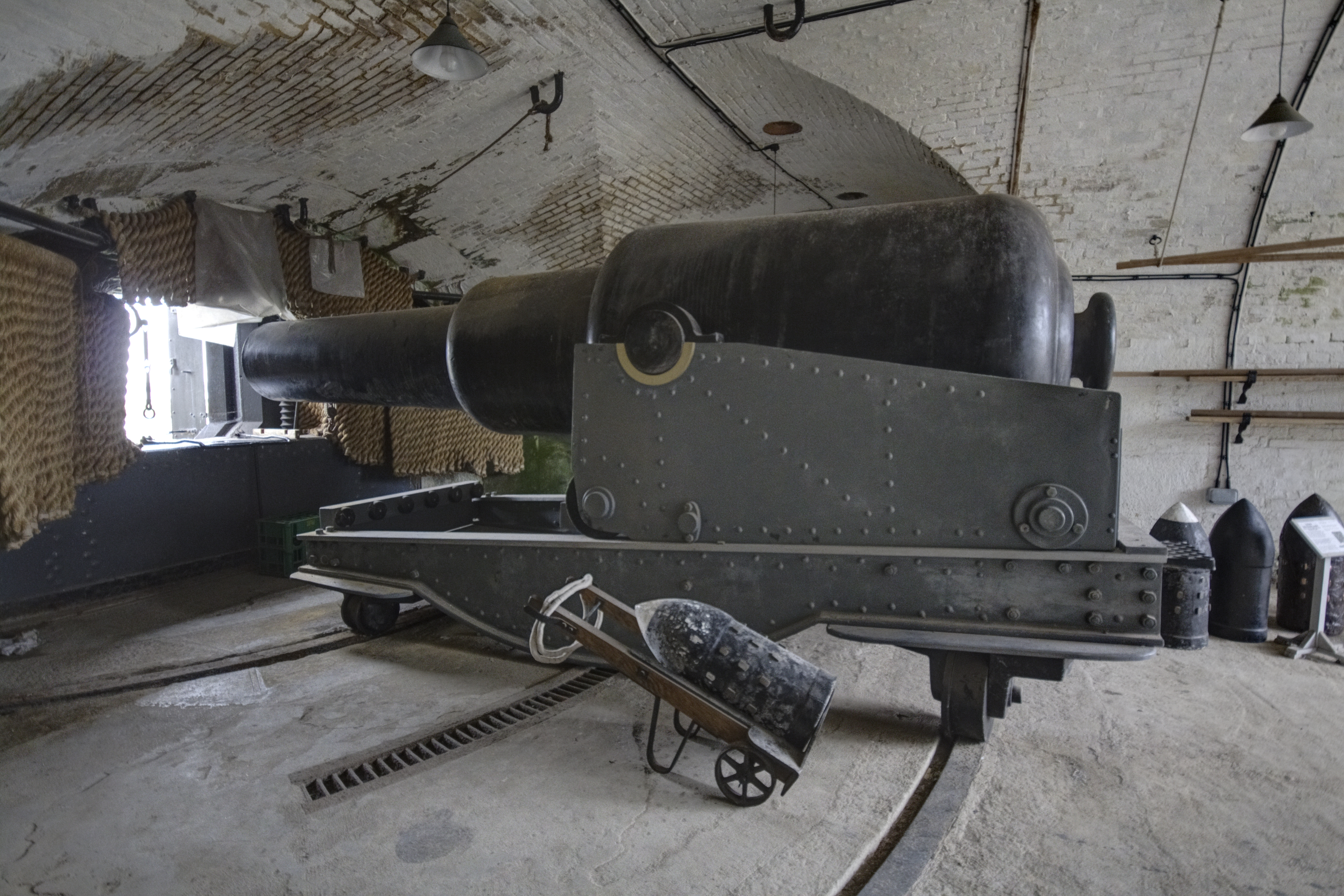 Reconstructed casemate at Coalhouse Fort